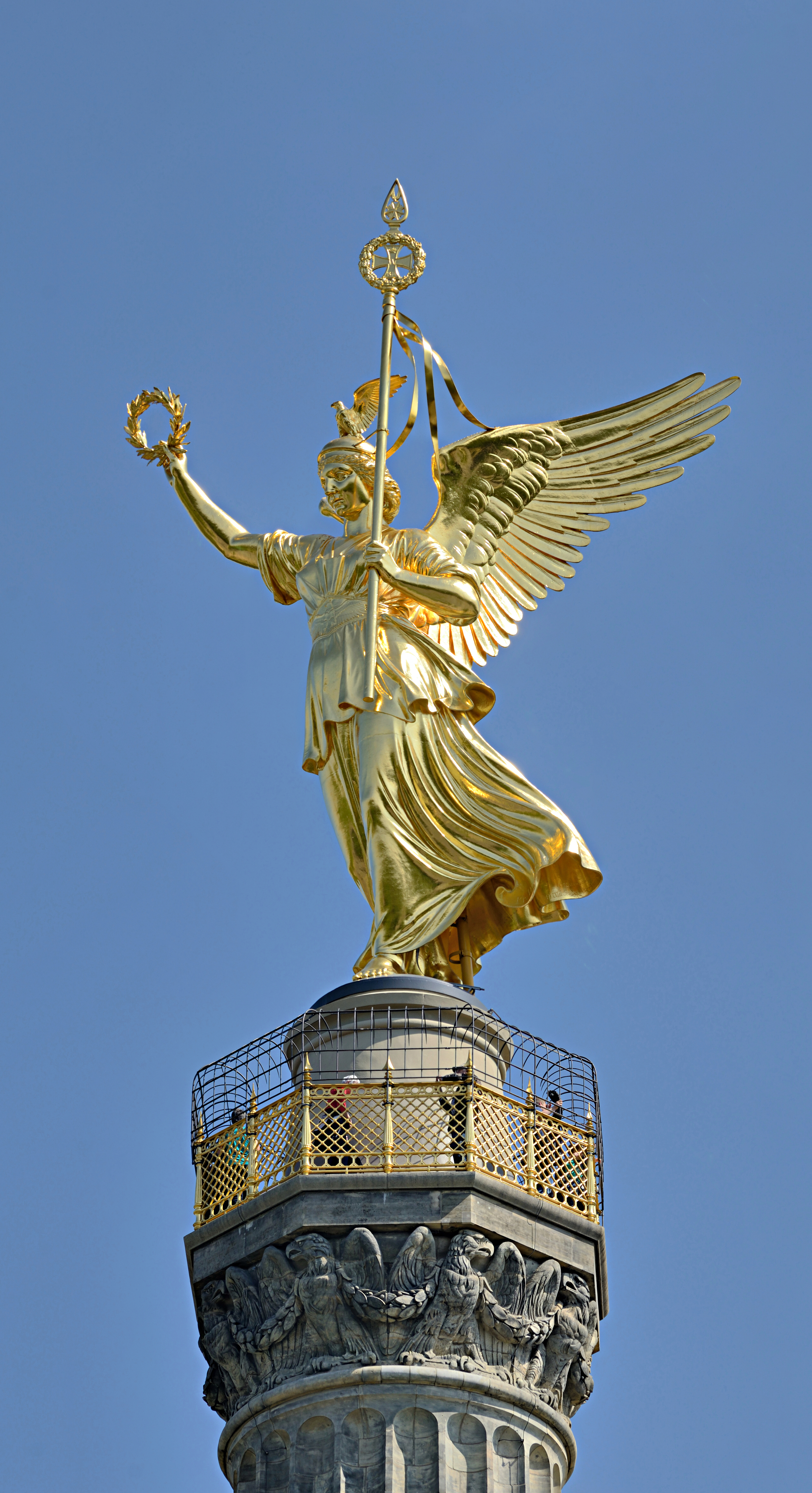 Berlin: Top of Victory Column